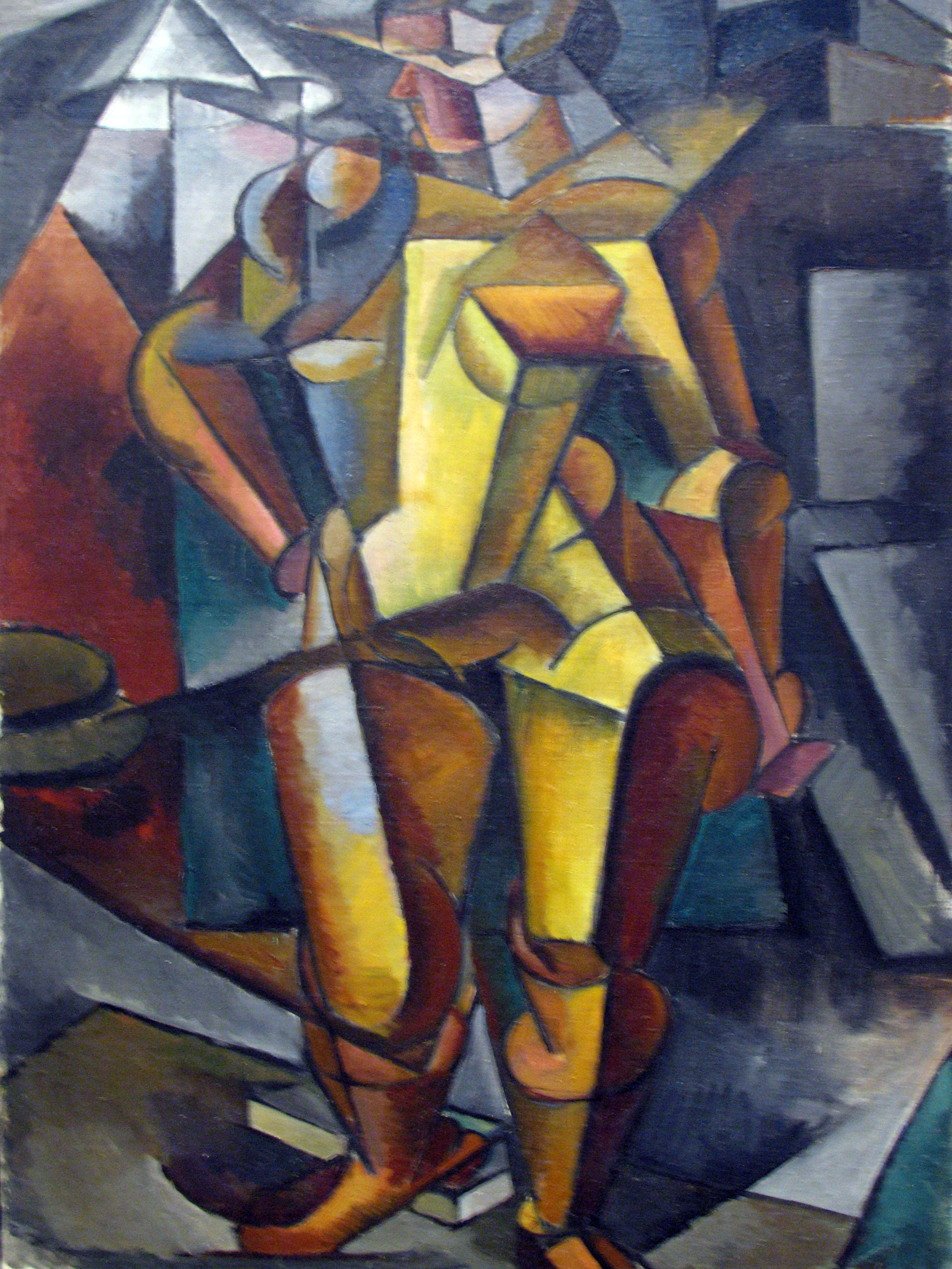 The model. Standing figure.